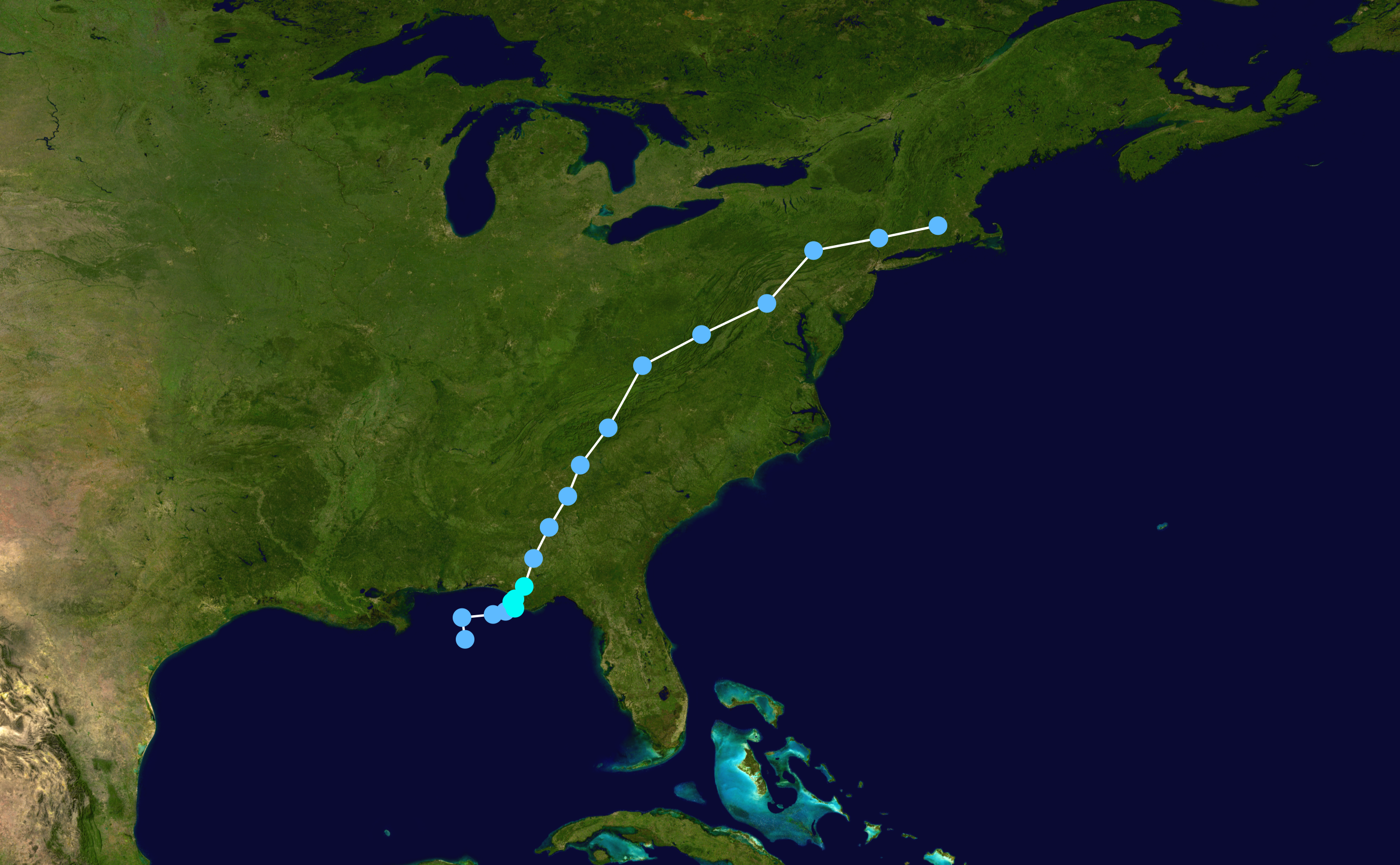 Track map of Tropical Storm Beryl of the 1994 Atlantic hurricane season. The points show the location of the storm at 6-hour intervals. The colour represents the storm's maximum sustained wind speeds as classified in the Saffir–Simpson scale (see below), and the shape of the data points represent the nature of the storm, according to the legend below. Saffir–Simpson scale Tropical depression≤38 mph≤62 km/h Category 3111–129 mph178–208 km/h Tropical storm39–73 mph63–118 km/h Category 4130–156 mph209–251 km/h Category 174–95 mph119–153 km/h Category 5≥157 mph≥252 km/h Category 296–110 mph154–177 km/h Unknown Storm type Tropical cyclone Subtropical cyclone Extratropical cyclone / Remnant low / Tropical disturbance / Monsoon depression